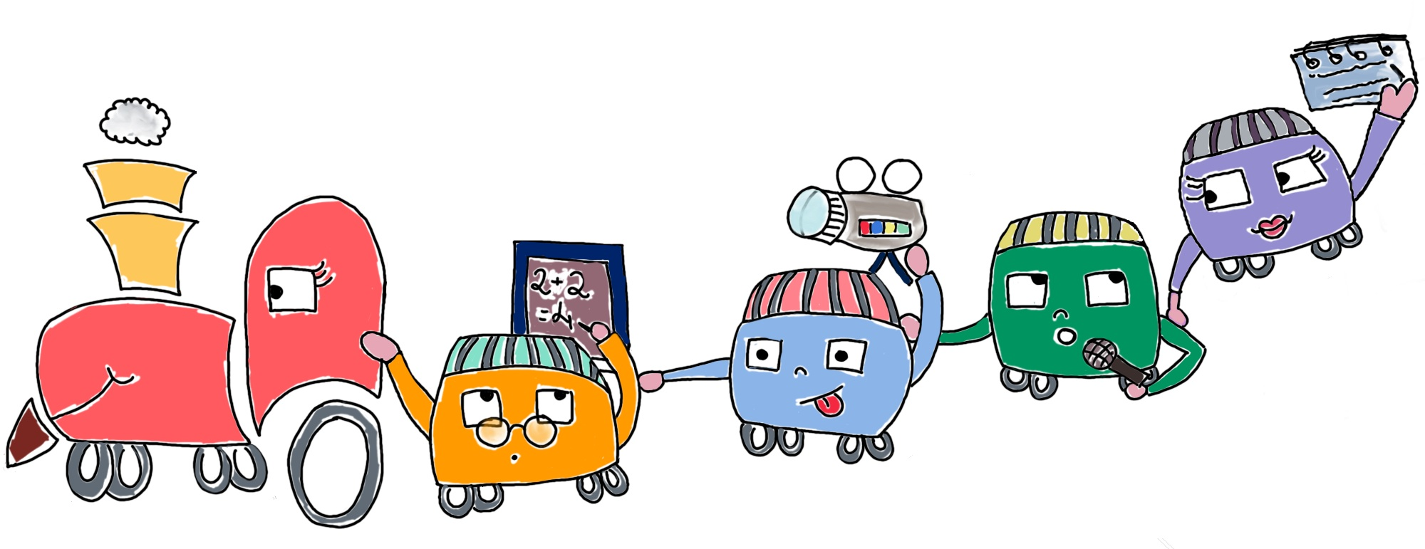 Icon for a partnership that requires leadership